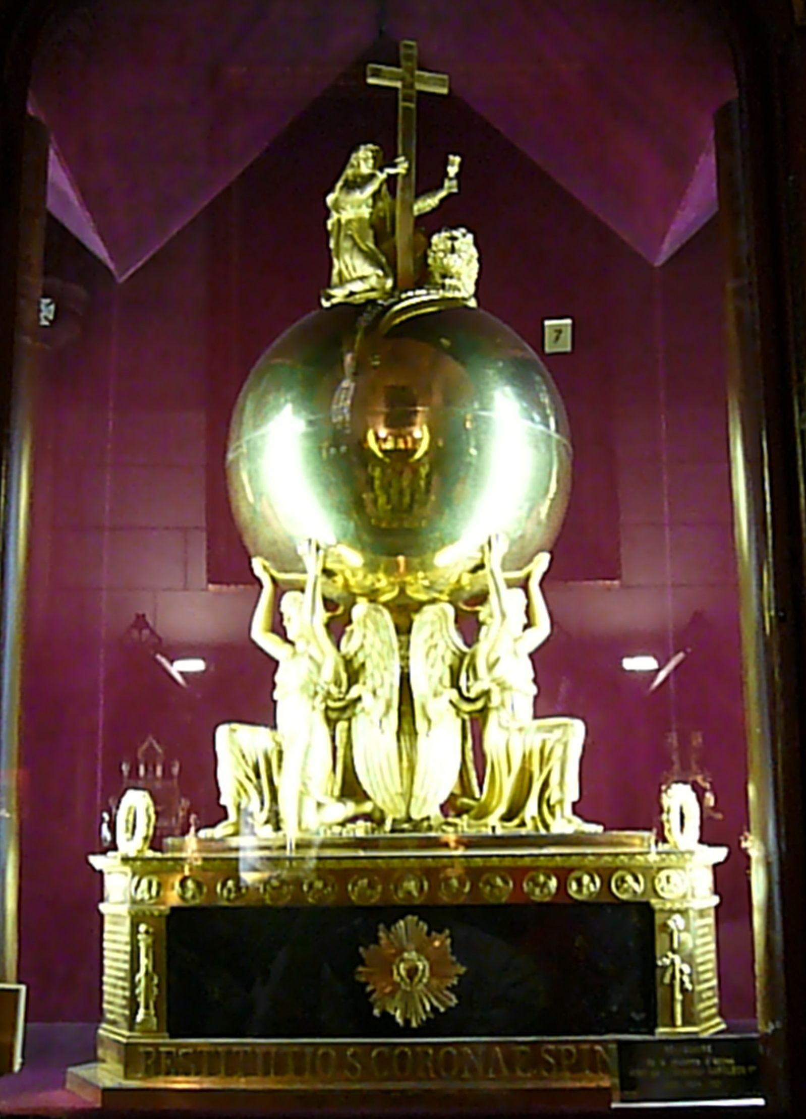 Late 19th century reliquary of the Crown of Thorns